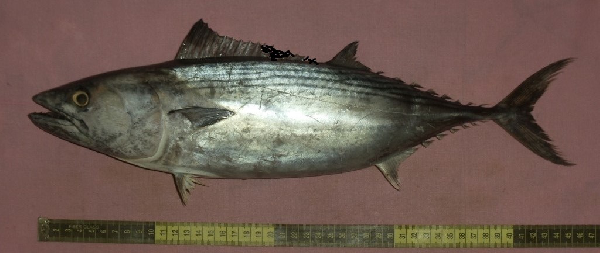 Sarda orientalis, Karachi, Pakistan